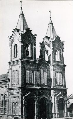 Photo of old Catholic Cathedral, Saratov, Russia. XIX century